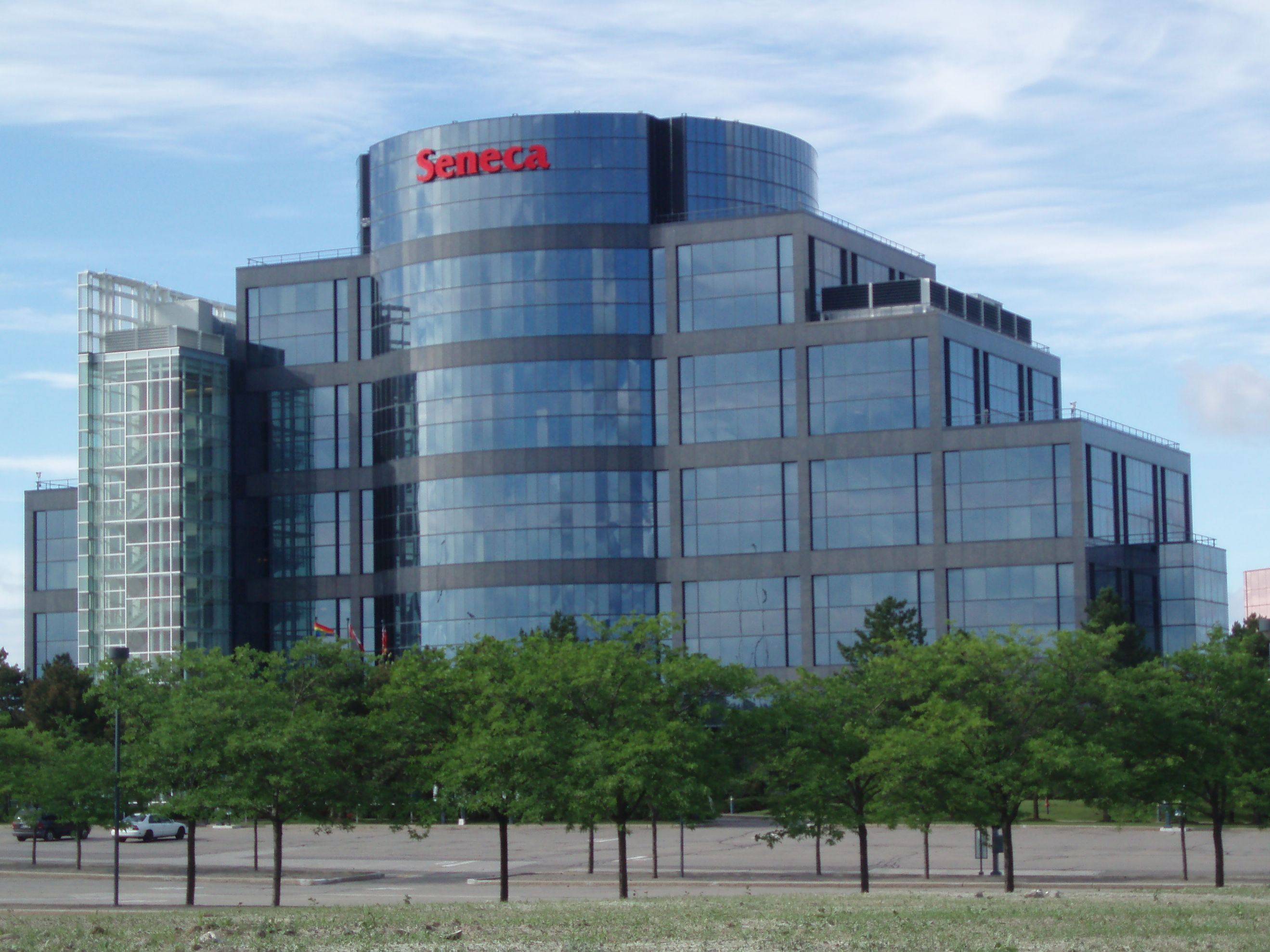 Seneca College, Markham Campus